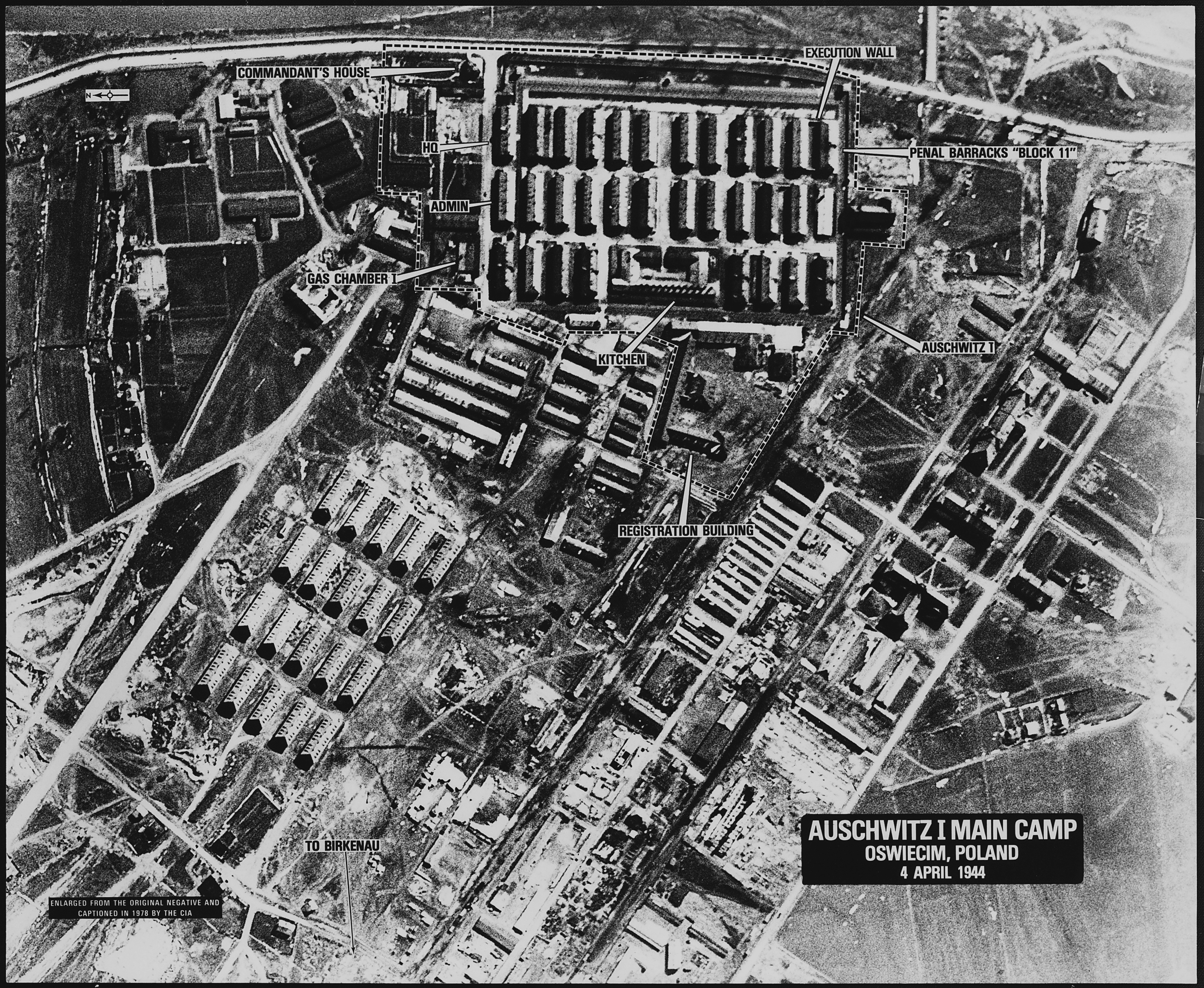 Description: An aerial reconnaissance photograph of the Auschwitz concentration camp showing the Auschwitz I camp. Mission: 60 PR 288 60 SQ Scale: 1/15,569 Focal Length: 20" Altitude: 26,000' Credit: National Archives, College Park, MD, courtesy of USHMM Photo Archives. Taken April 4, 1944, Auschwitz, Poland